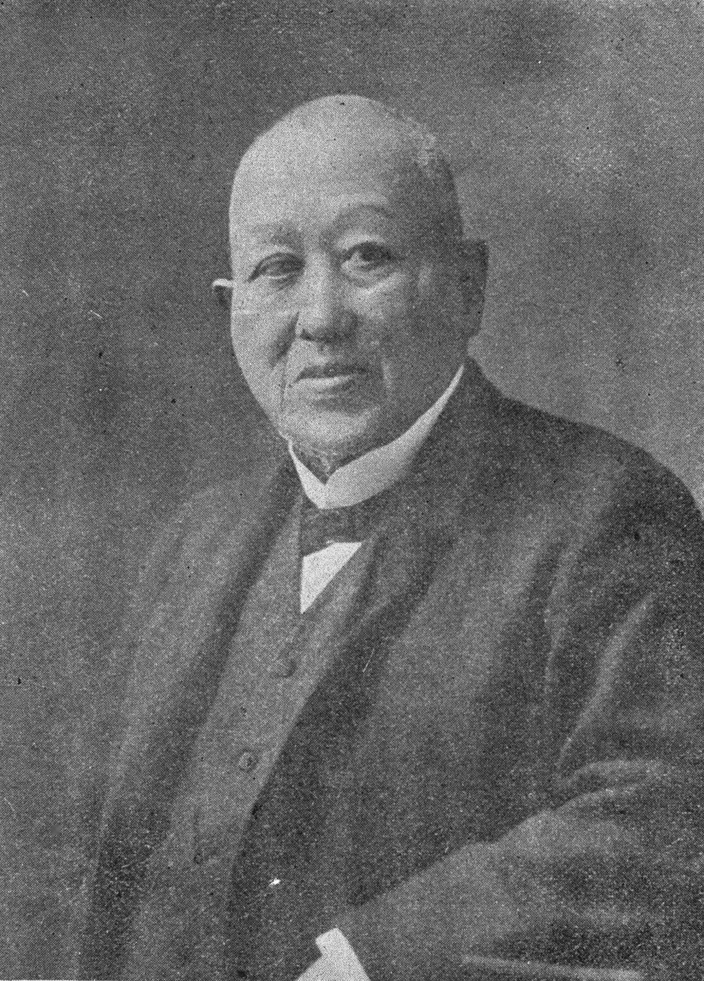 Portrait of Miura Yasushi (三浦安, 1828 – 1910)